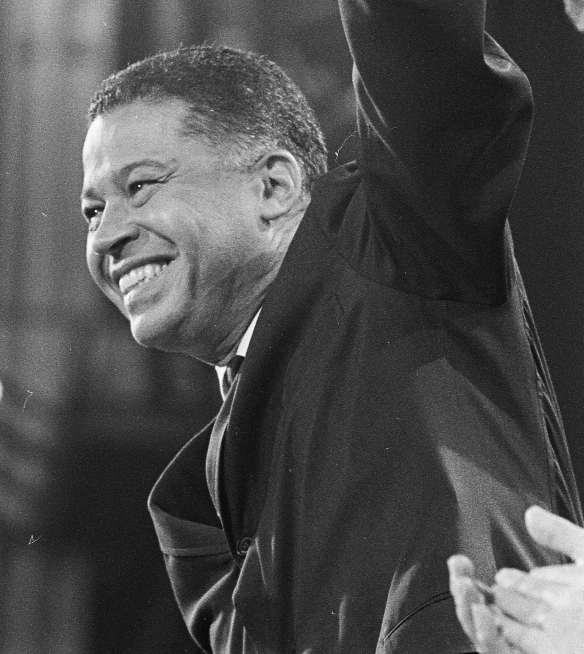 Massachusetts Senator Edward Brooke waves to the crowd at the 1968 Republican National Convention, Miami, Florida / WKL.